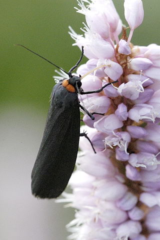 Picture taken in Commanster, Belgian High Ardennes . Species: Atolmis rubricollis